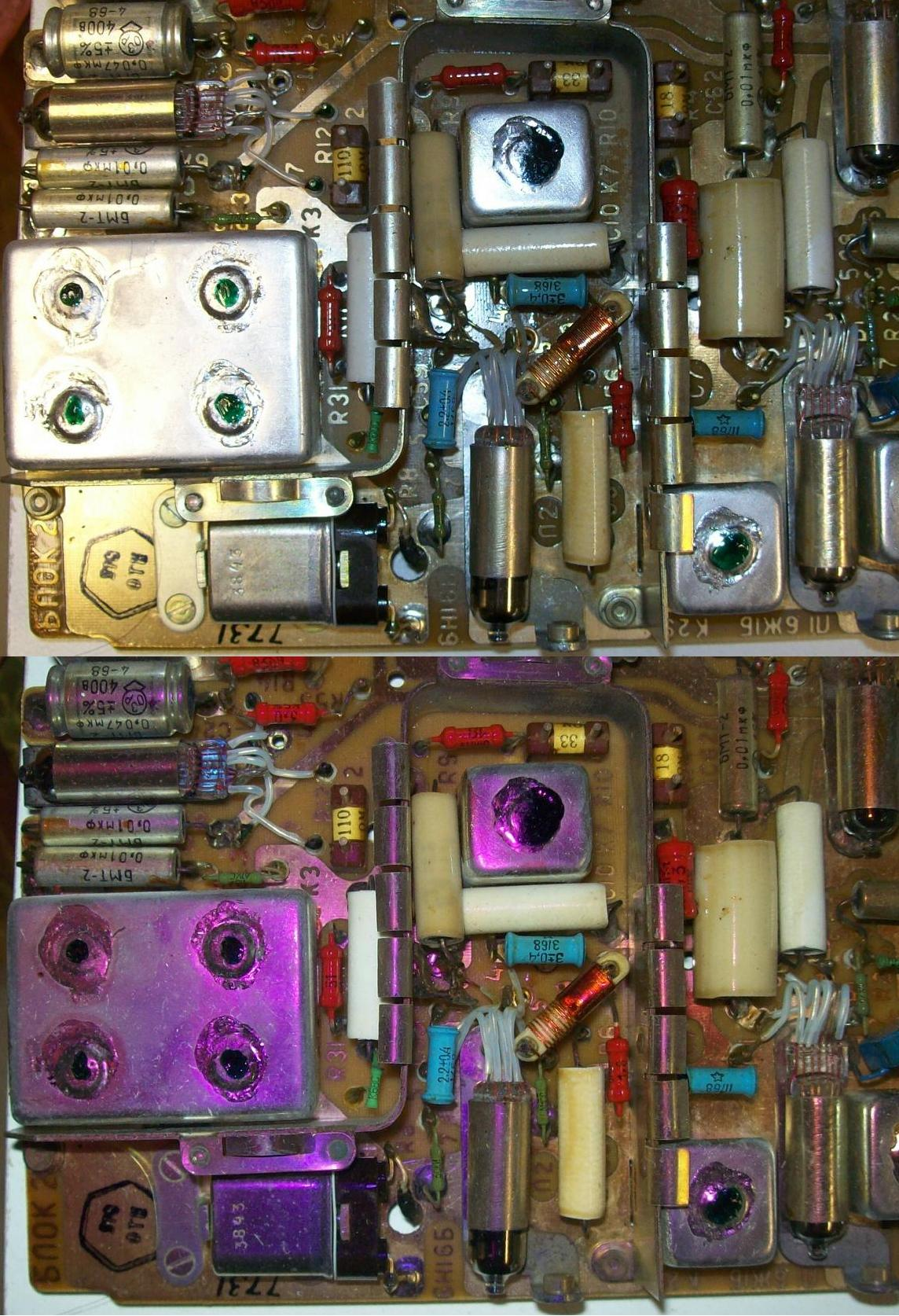 photographs made with and without a circular polarizing filter (CP-50/Polaroid) between camera and object. Metallic reflections dissapear.